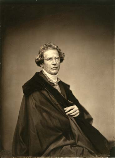 The german painter Joseph Schlotthauer (1789-1869)